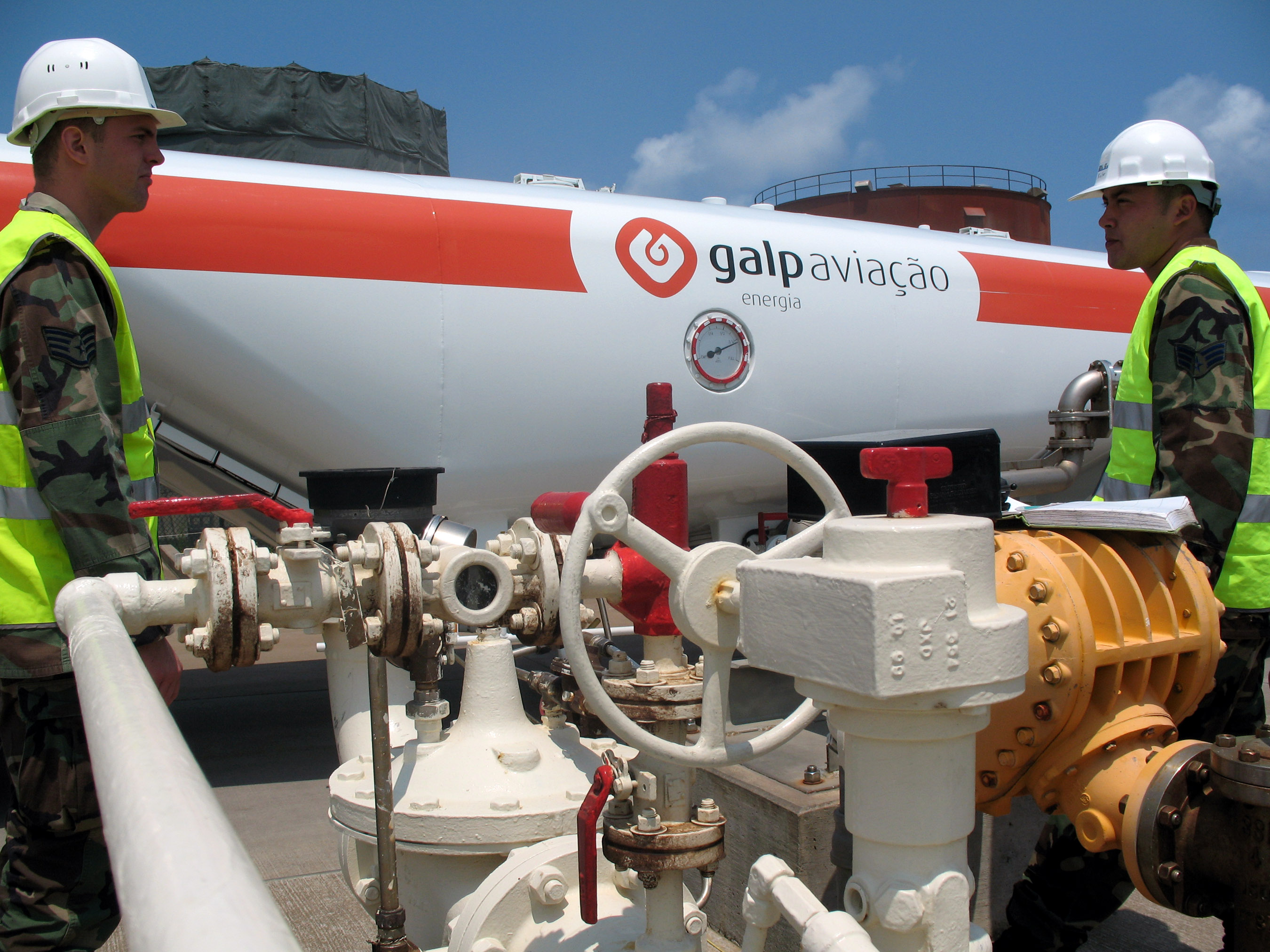 Fuel gets pumped into a civilian fuel truck June 21st at Lajes Field, Portugal. Ongoing construction at Lajes Field includes an update and expansion to the fuel hydrant system. The project will double the capabilities of the current system. The Airmen are fuels hydrant operators assigned to the 65th Logistics Readiness Squadron.